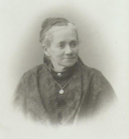 A portrait of the pianist and composer Louise Japha (also: Langhans-Japha).